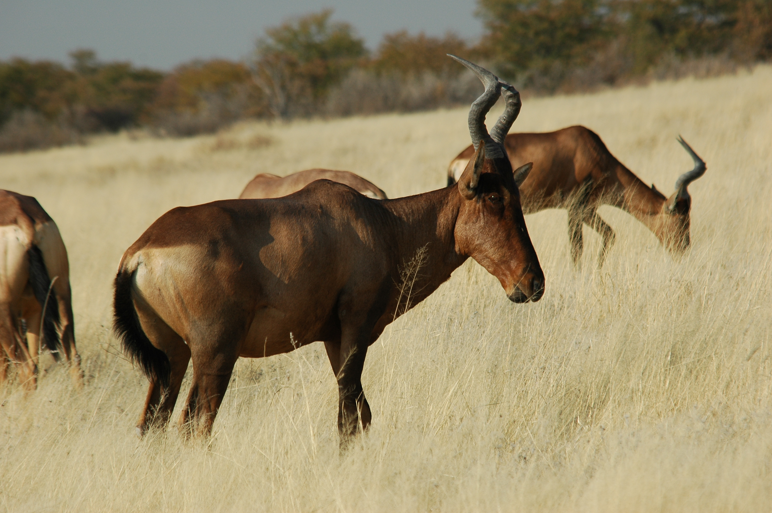 Bubale de Coke (Alcelaphus buselaphus) Namibie Etosha National Park Photographie prise par GIRAUD Patrick